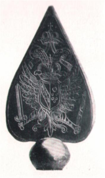 Flaghead k.u.k. 59th Infantry Regiment